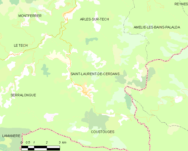 Map of French municipality